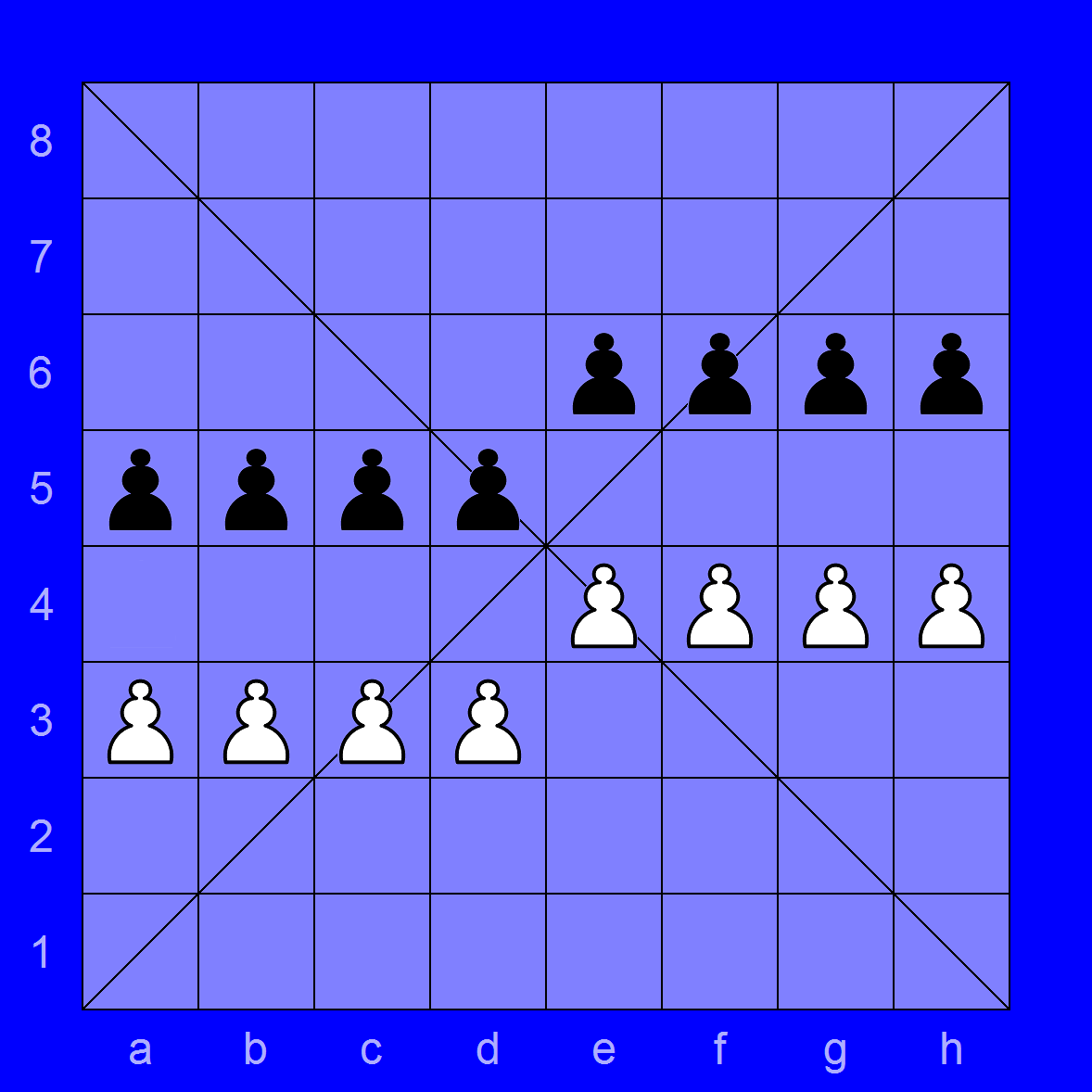 Using the great chess icons fashioned by David Benbennick (User:Dbenbenn), done in MS PAINT (the blue & purple are standard PAINT colors).